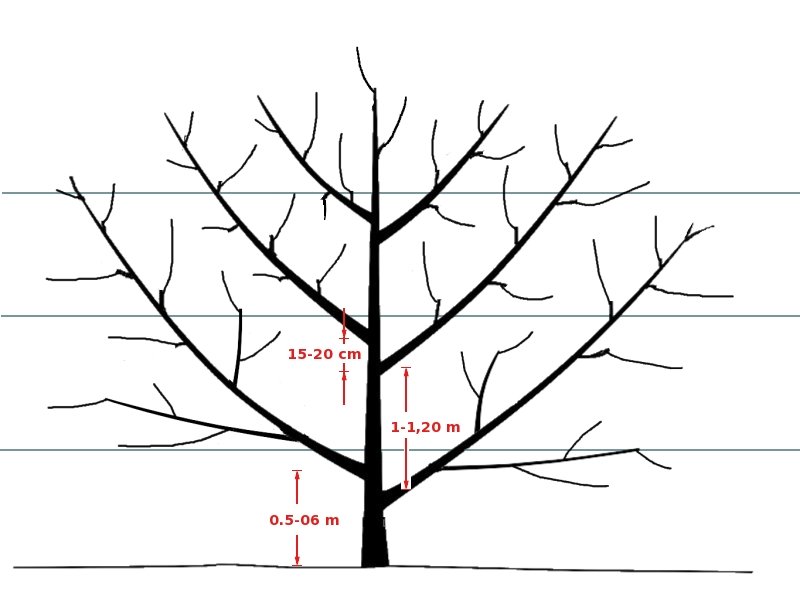 Regular espalier with upward-slanting branches, as used with peach trees - Prunus persica)